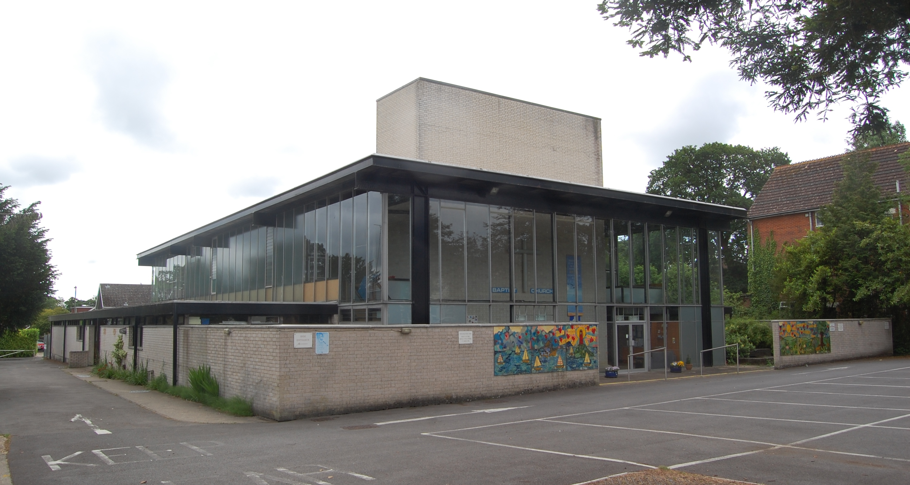 Waterlooville Baptist Church, London Road, Waterlooville, Hampshire, England. A highly regarded design of 1967 by Michael Manser, replacing a Victorian chapel on another site in Waterlooville.